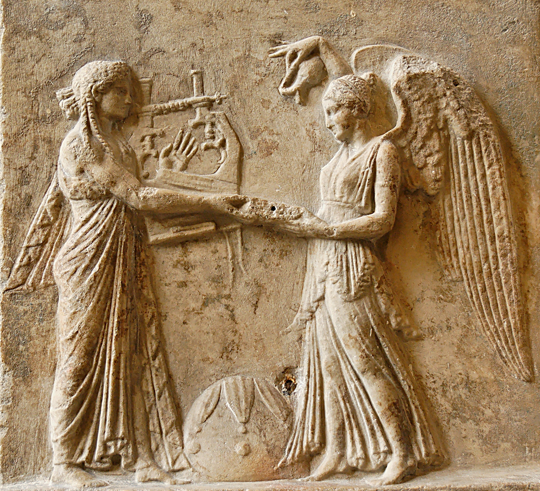 Apollo carrying his kithara holds a phiale (flat cup) for Nike (Victory) to pour a libation in; they are standing on both sides of the omphalos. Marble, Roman copy of the late 1st century CE after a neo-Attic original of the Hellenistic era.